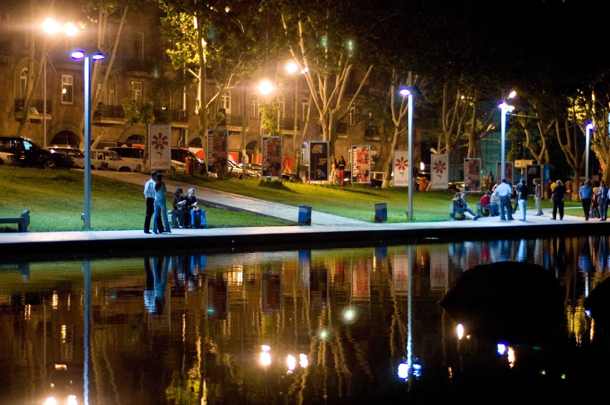 Yerevan